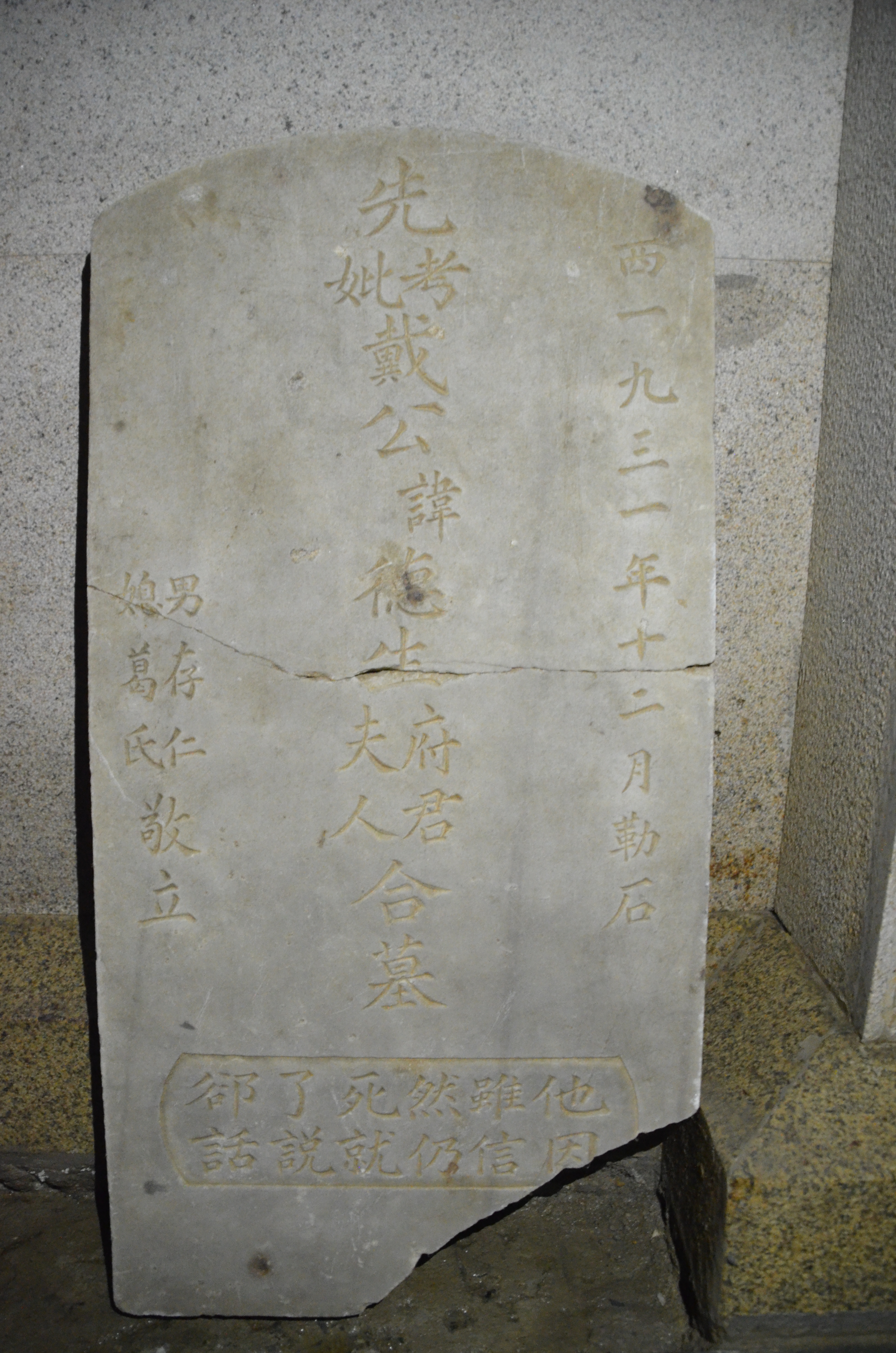 宣德堂镇江Xuande Church in Zhenjiang. Currently in an underground pit as church awaits construction a memorial tower